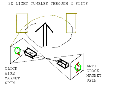 magnoflux sketch7